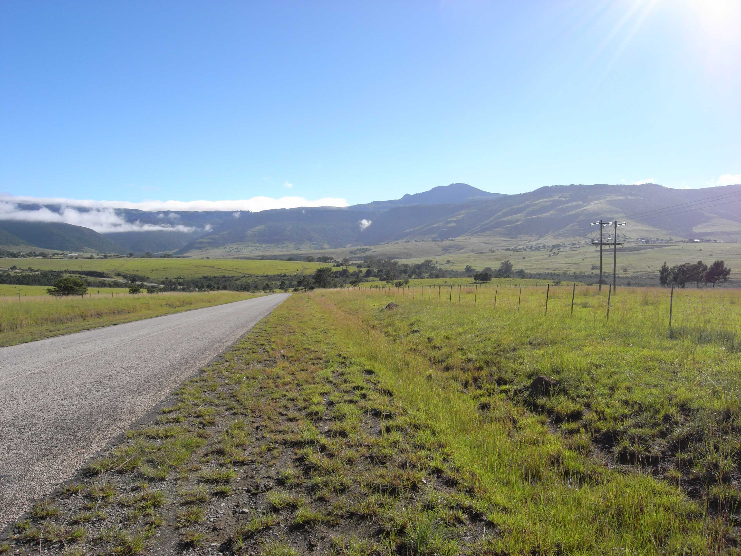 Tyhumeriver valley, near KwaKayaletu, view of the Amathole Mountains (Eastern Cape, RSA)